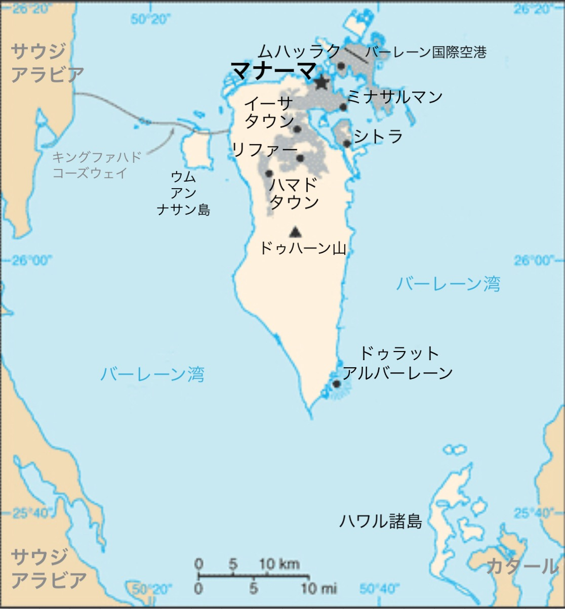 Map of Bahrain in Japanese (from CIA World Factbook)